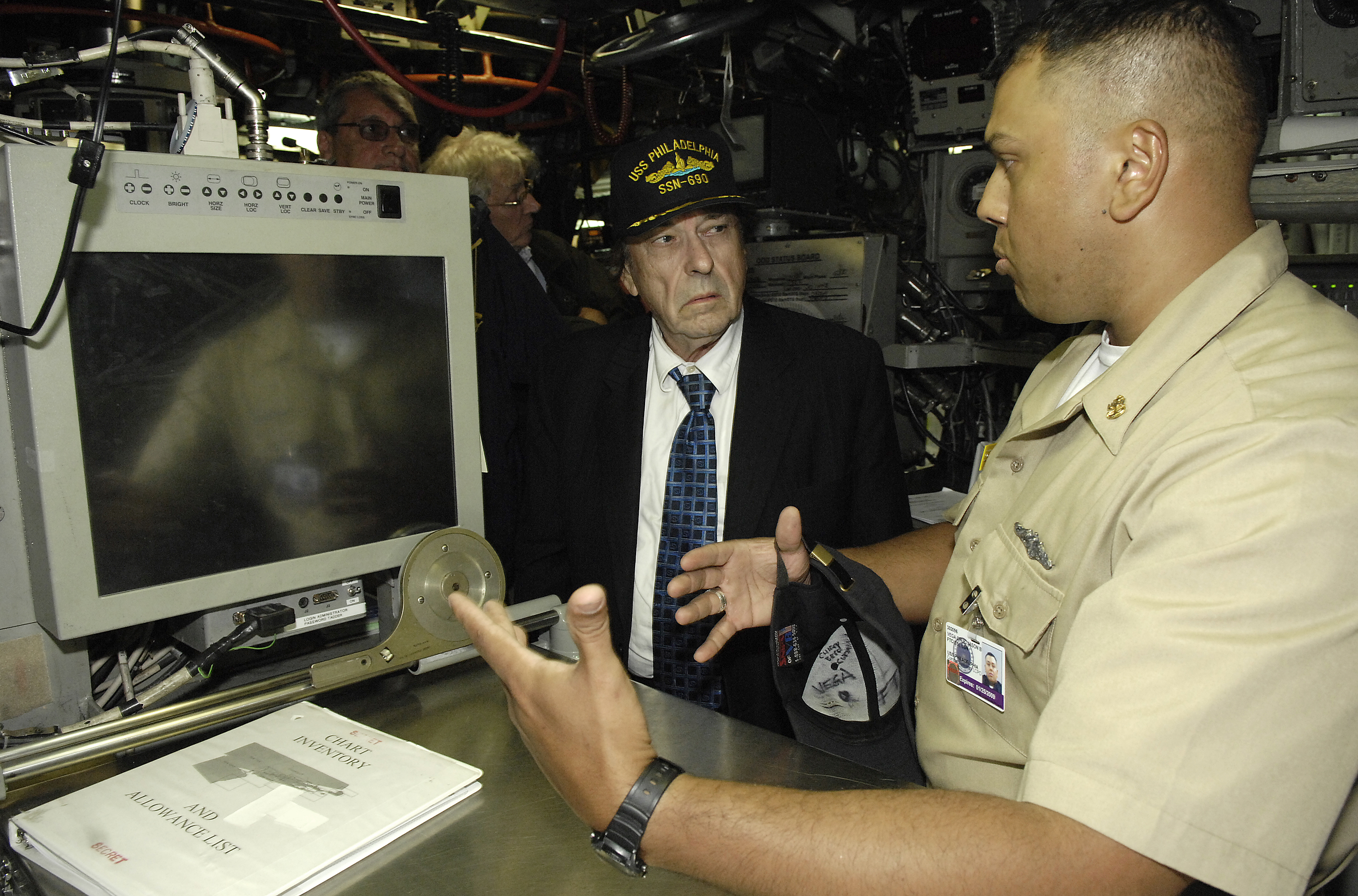 GROTON, Conn. (Aug. 6, 2008) Chief Fire Control Technician Jason Vega Cruz talks about nagivation aboard the fast-attack submarine USS Philadelphia (SSN 690) to actor and Army Veteran Rip Torn. The 77-year-old Torn visited Philadelphia while on a tour to Submarine Base New London. (U.S. Navy photo by John Narewski/Released)